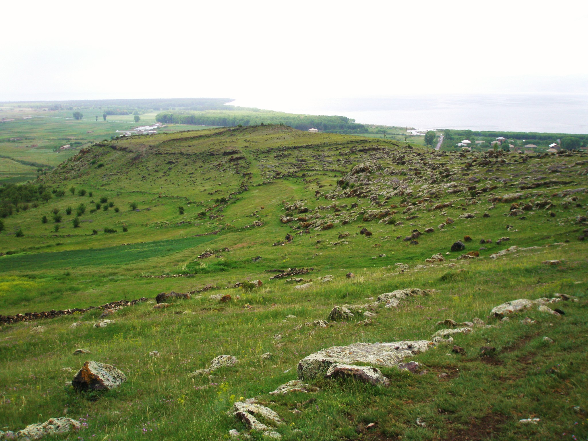 Overlooking the site of Teyseba and Lake Sevan.